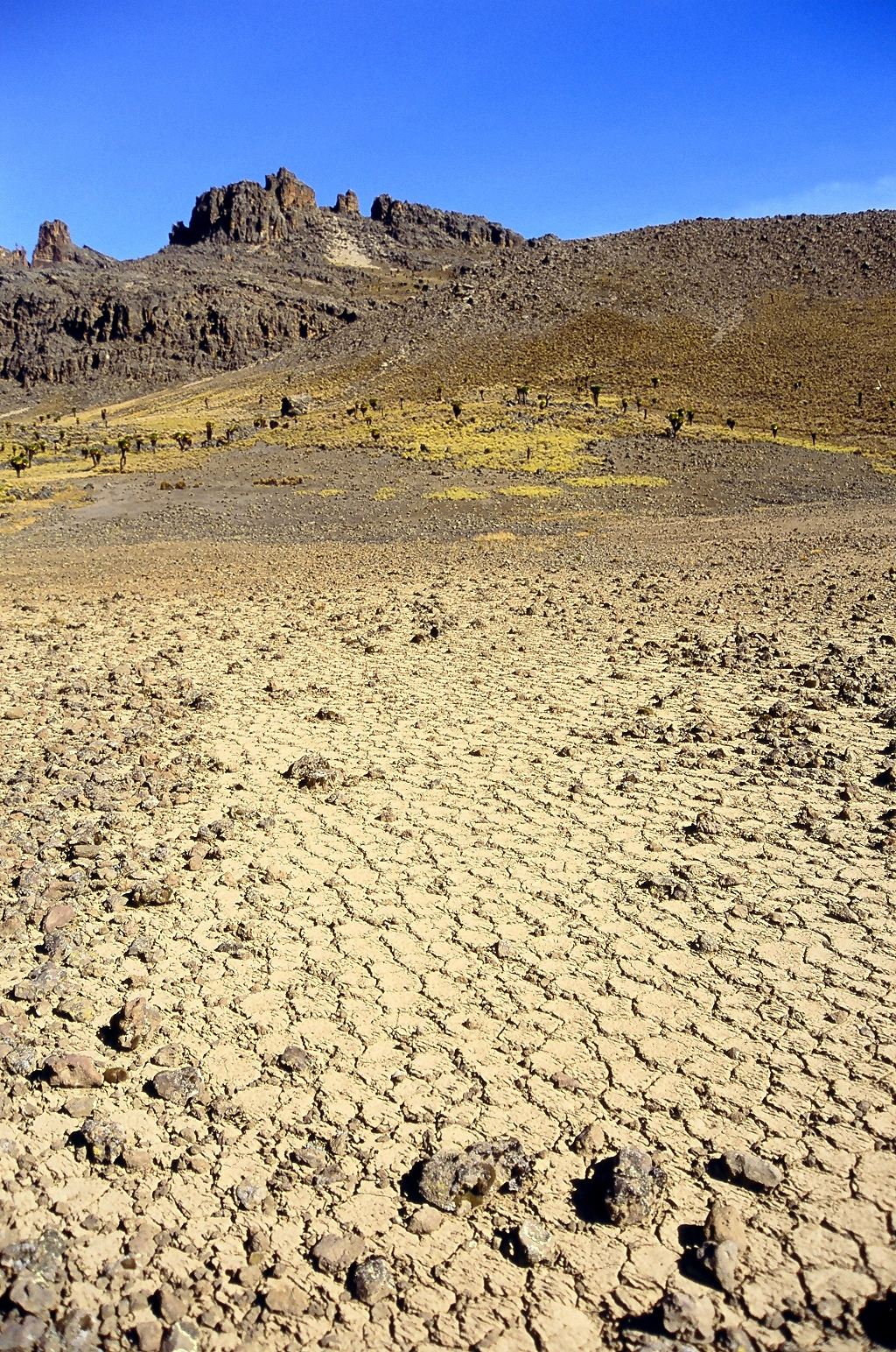 Blockfields or Felsenmeer are large angular blocks created by freeze-thaw action, usually on flat ground (see Periglacial). Photo taken on Chagoria route on Mount Kenya.